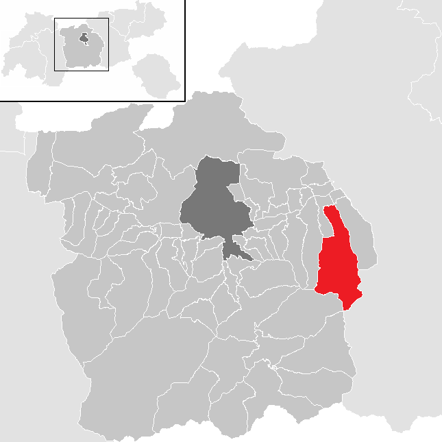 District Innsbruck Land